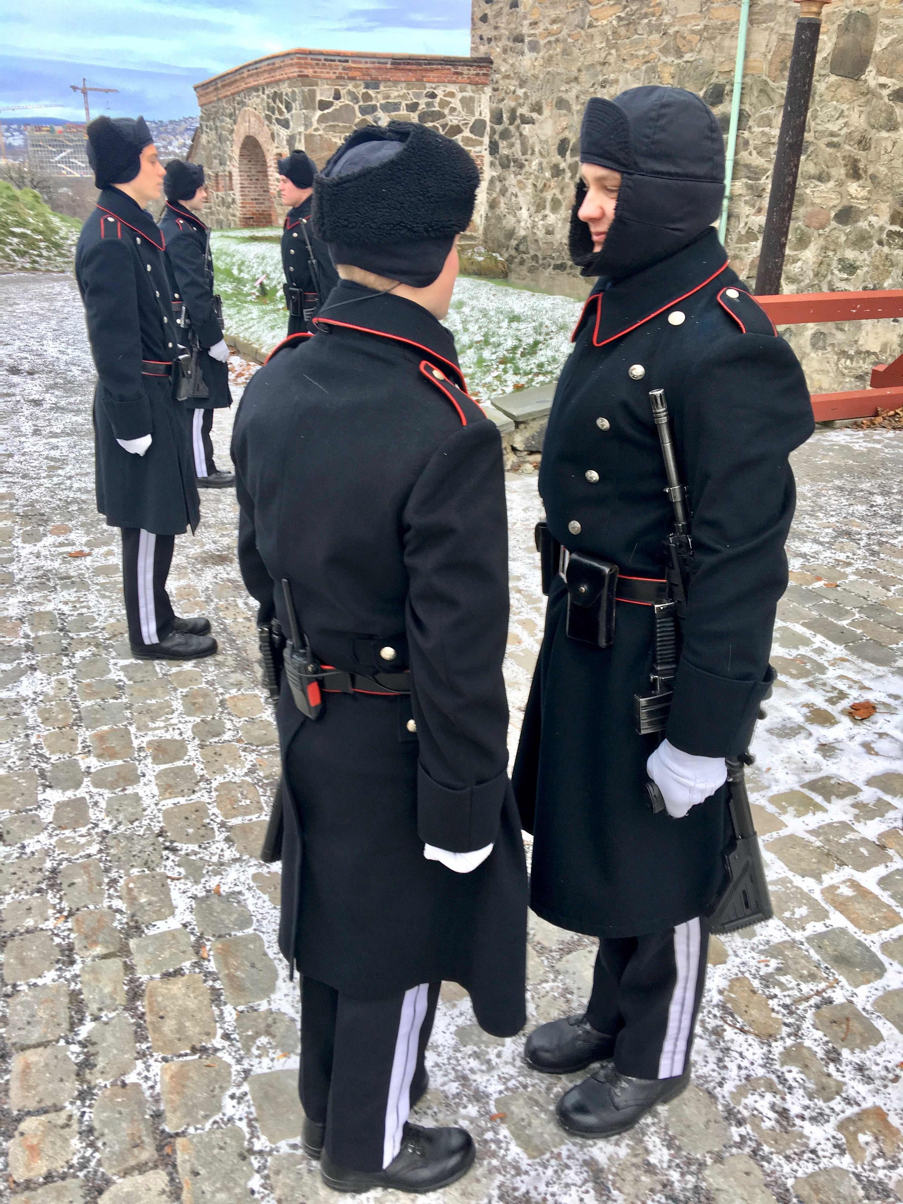 Changing of the guard inside Akershus fortress in Oslo, Norway. Guardsmen in winter uniforms outside "Nordfløyen" of Akershus Castle. November 30th, 2017. Hans Majestet Kongens Garde (HMKG) the Royal Guards in Norway, is a battalion of the Norwegian Army. It serves as the Norwegian King's bodyguards, guarding the royal residences (the Royal Palace in Oslo, Bygdøy Kongsgård and Skaugum) and Akershus Fortress in Oslo, and is also the main infantry unit responsible for the defence of Oslo.